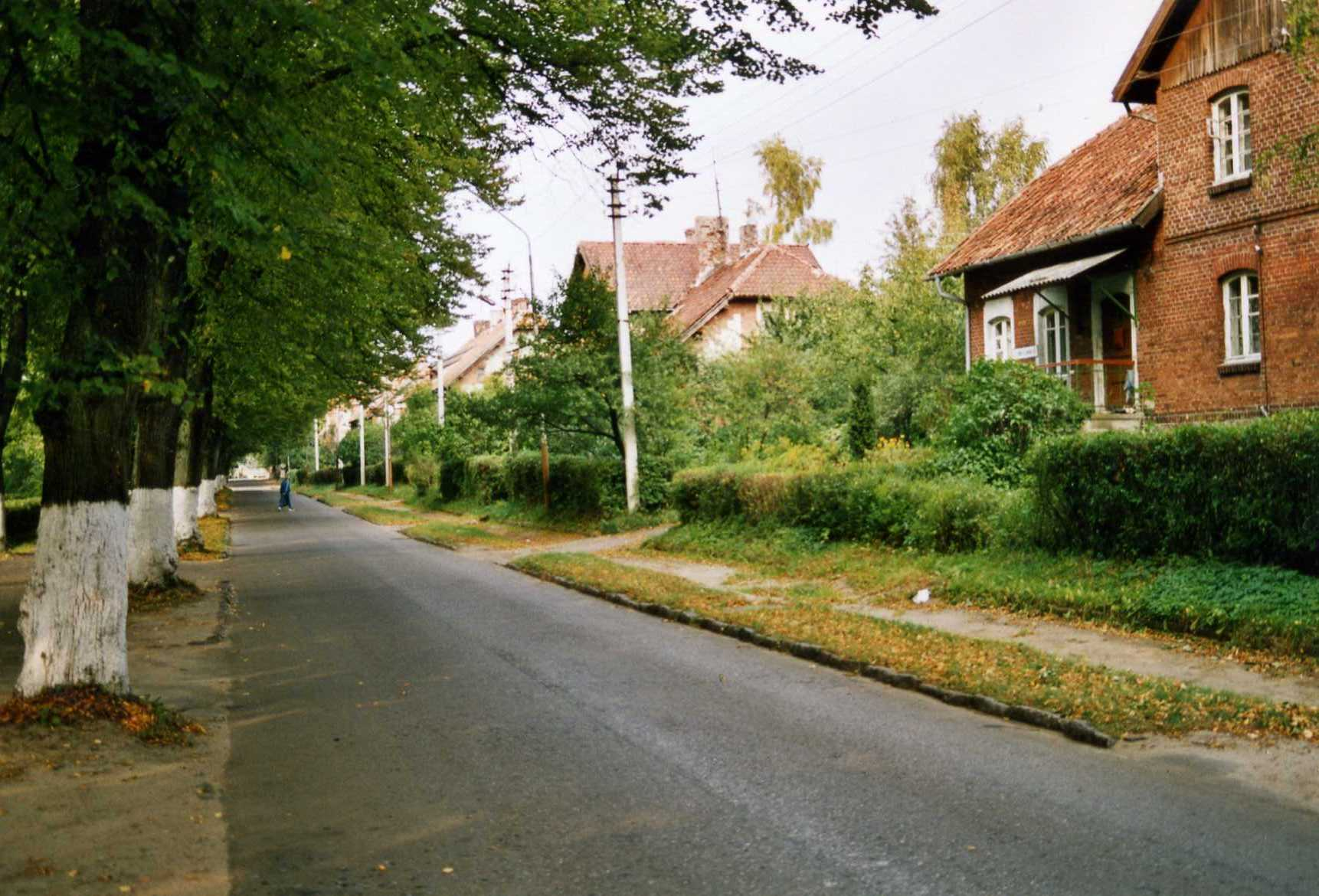 This could be 1930s Germany. Deutsche Alleenstrasse not a car in sight.